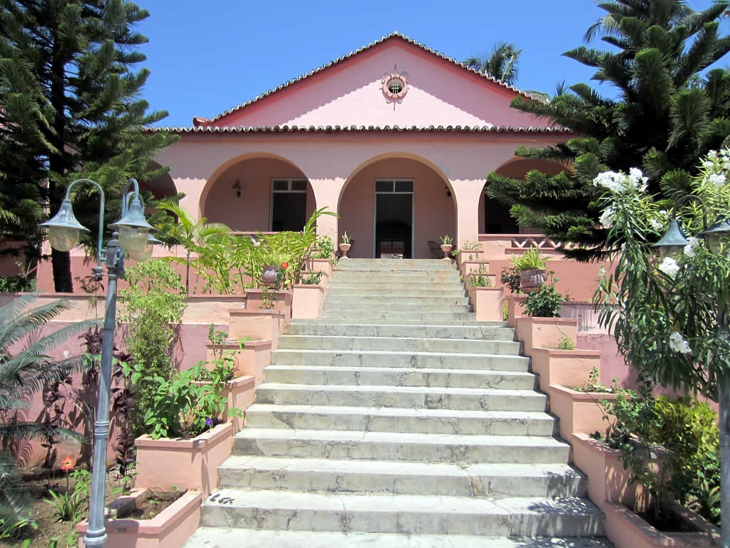 Pousada de Baucau, East Timor